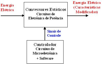 Static Converter Energy Flow Diagramm